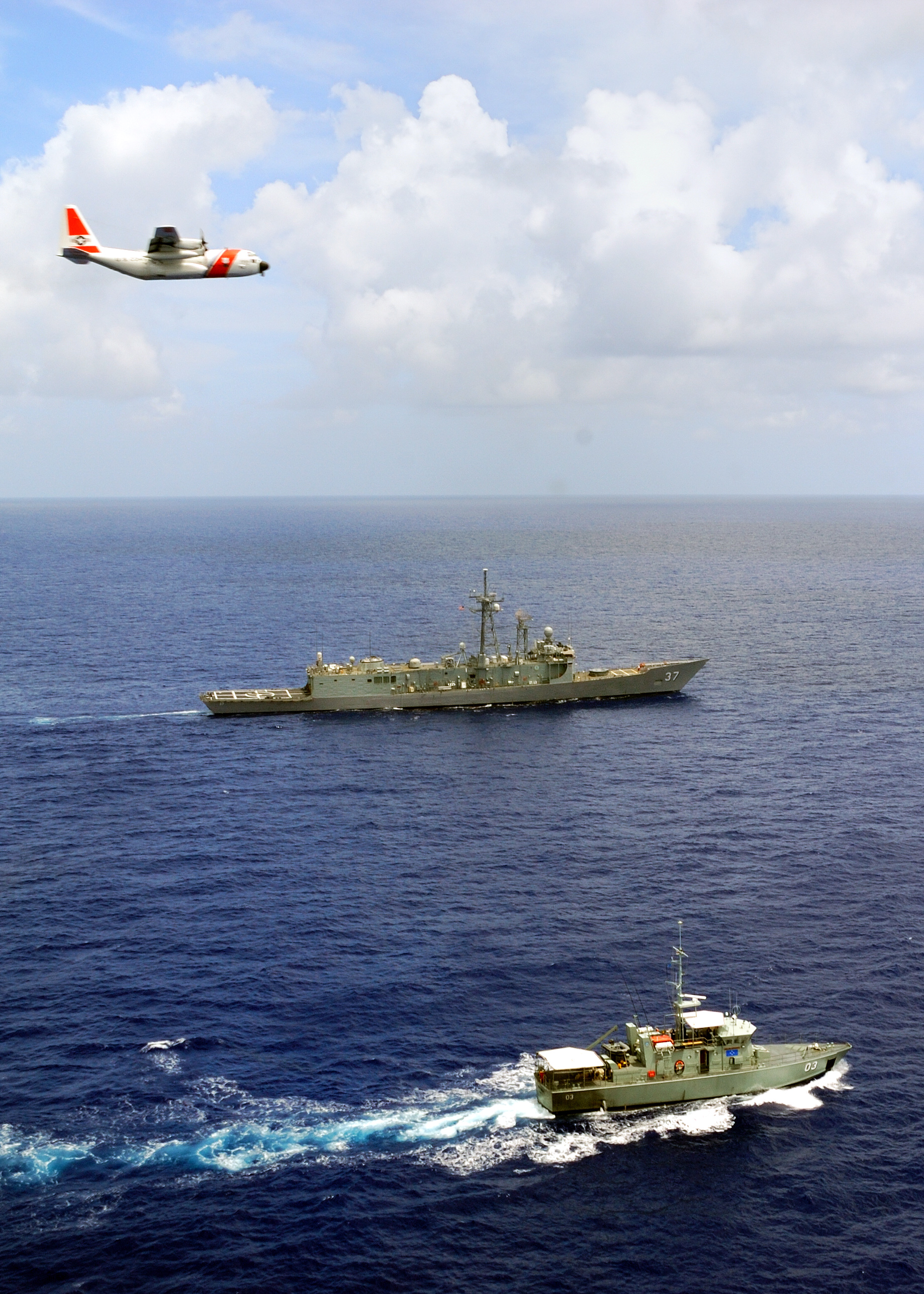 PACIFIC OCEAN (June 25, 2009) A U.S. Coast Guard Air Station Barbers Point C-130 crew flies over USS Crommelin (FFG 37), homeported in Pearl Harbor, Hawaii, and the FSS Independence, a patrol boat from the Federated States of Micronesia, patroling in the Western Pacific Ocean. Both the Coast Guard and Navy have shared goals of protecting the fragile ecosystems of Oceania as well as enforcing maritime laws throughout mutual areas of responsibility. (U.S. Coast Guard photo by Petty Officer 3rd Class Michael De Nyse/Released)